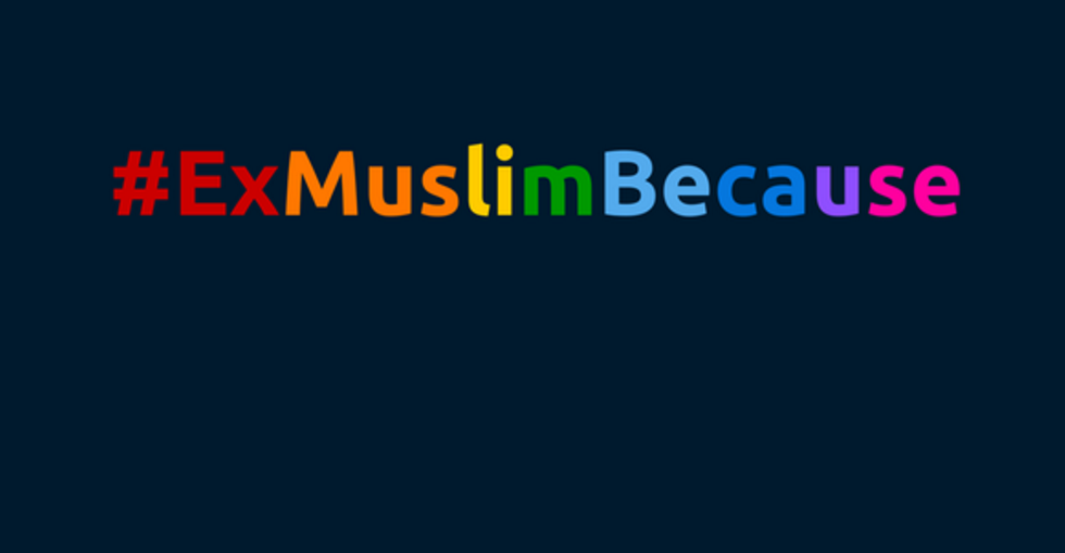 A rainbow-coloured version of the #ExMuslimBecause hashtag, central to the online campaign launched in November 2015 by the Council of Ex-Muslims of Britain (CEMB), encouraging former Muslims on social media to come out of the closet as apostates, and state their reasons for leaving Islam.